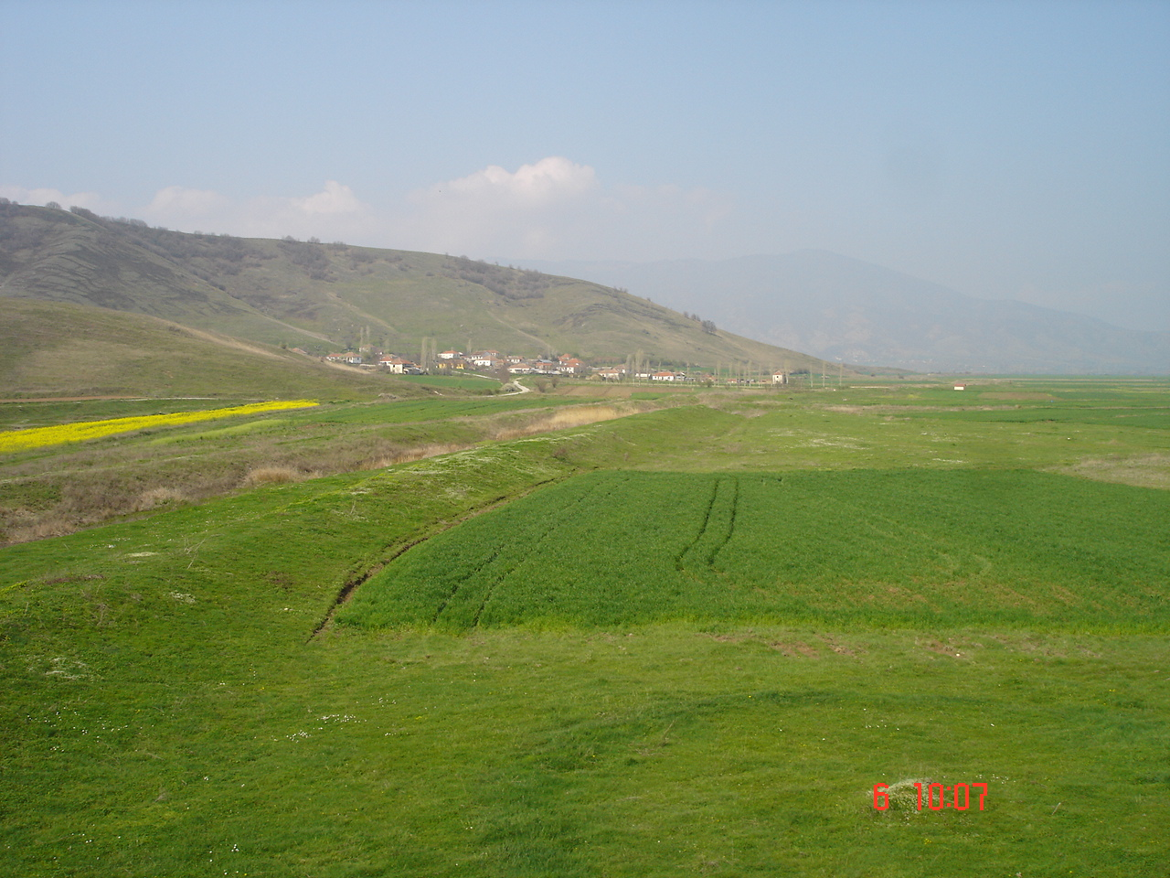 View of the village of Novoselani, near Bitola, Macedonia